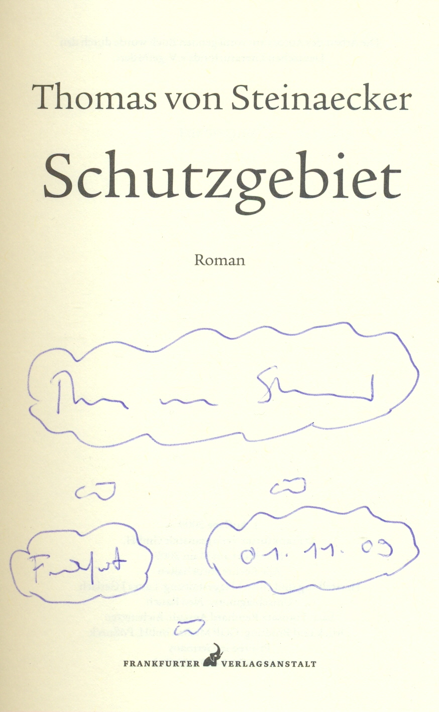 Autograph from Thomas von Steinaecker, German writer, 2009 in Frankfurt am Main